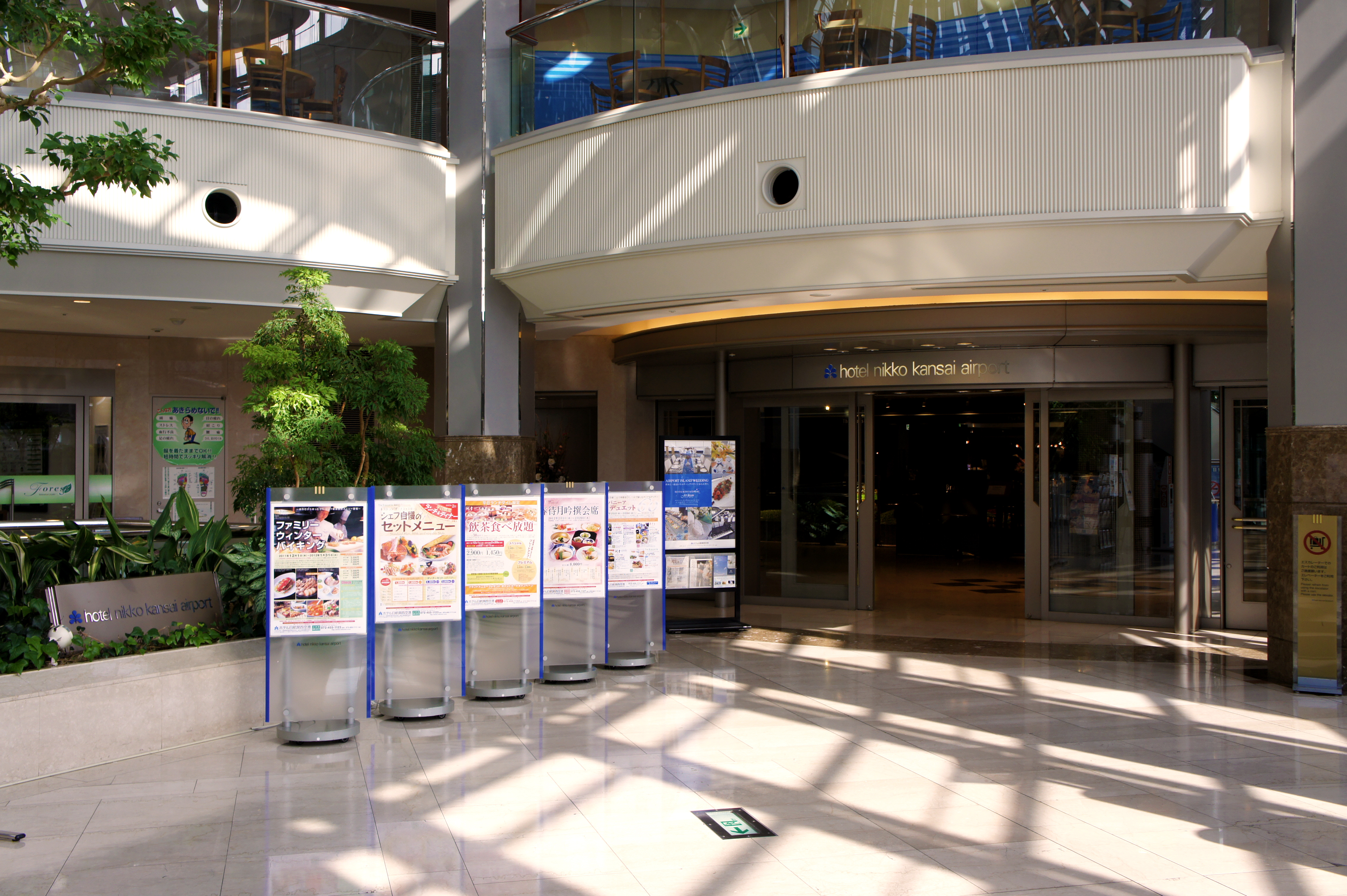 Hotel Nikko Kansai Airport Entrance(2F), 1 Senshukuko-kita Izumisano-City Osaka Japan.(Kansai International Airport)